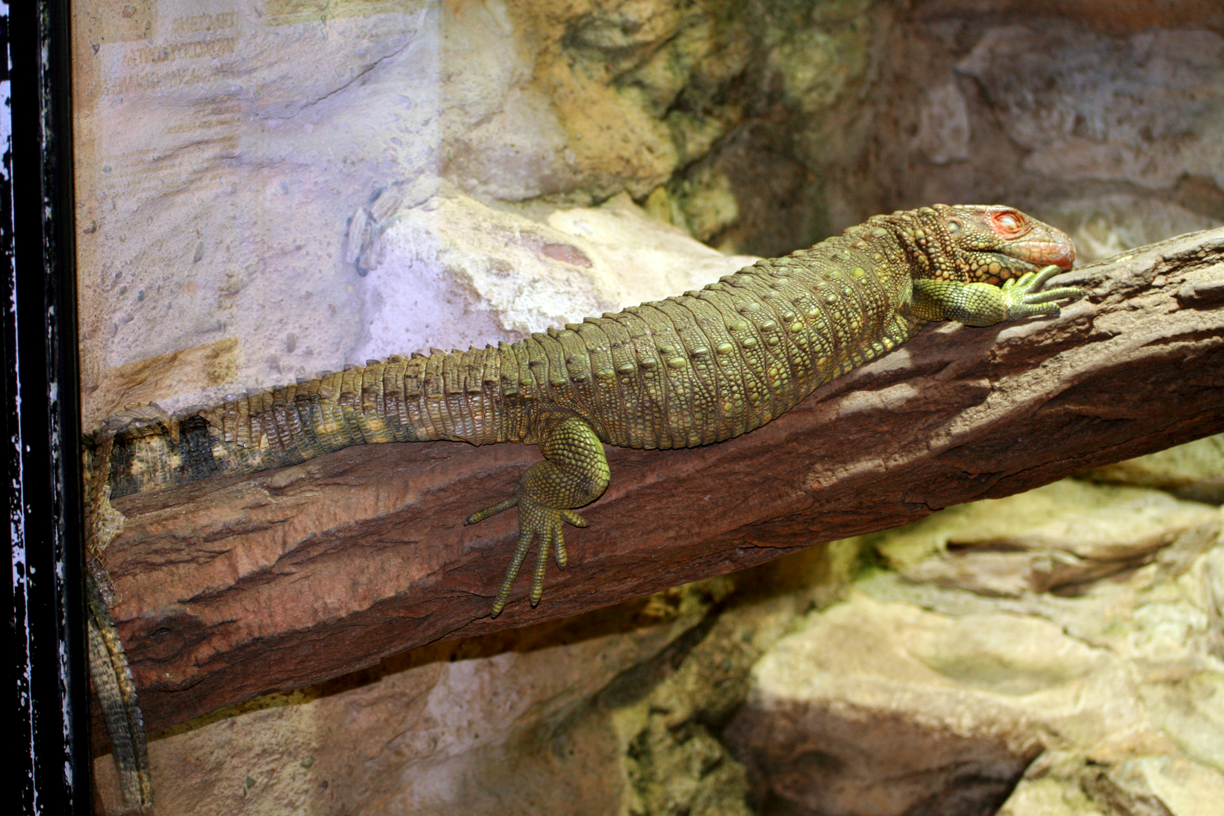 Caiman Lizard, (Dracaena guianensis) in ZOO Praha, Czech Republic